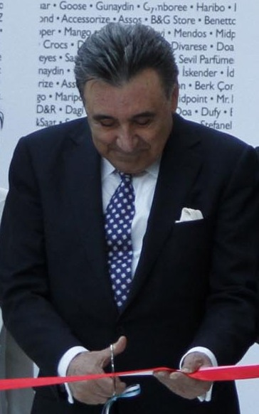 Trump AVM opening ceremony